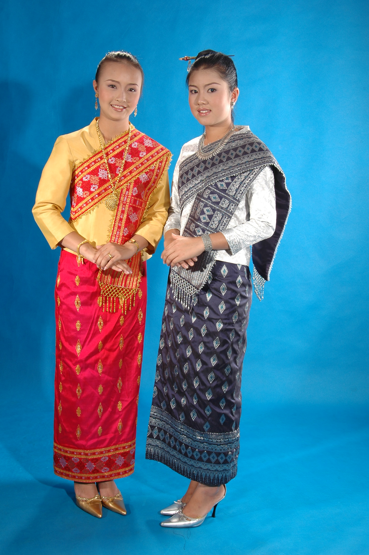 Phuan Girls in traditional clothes